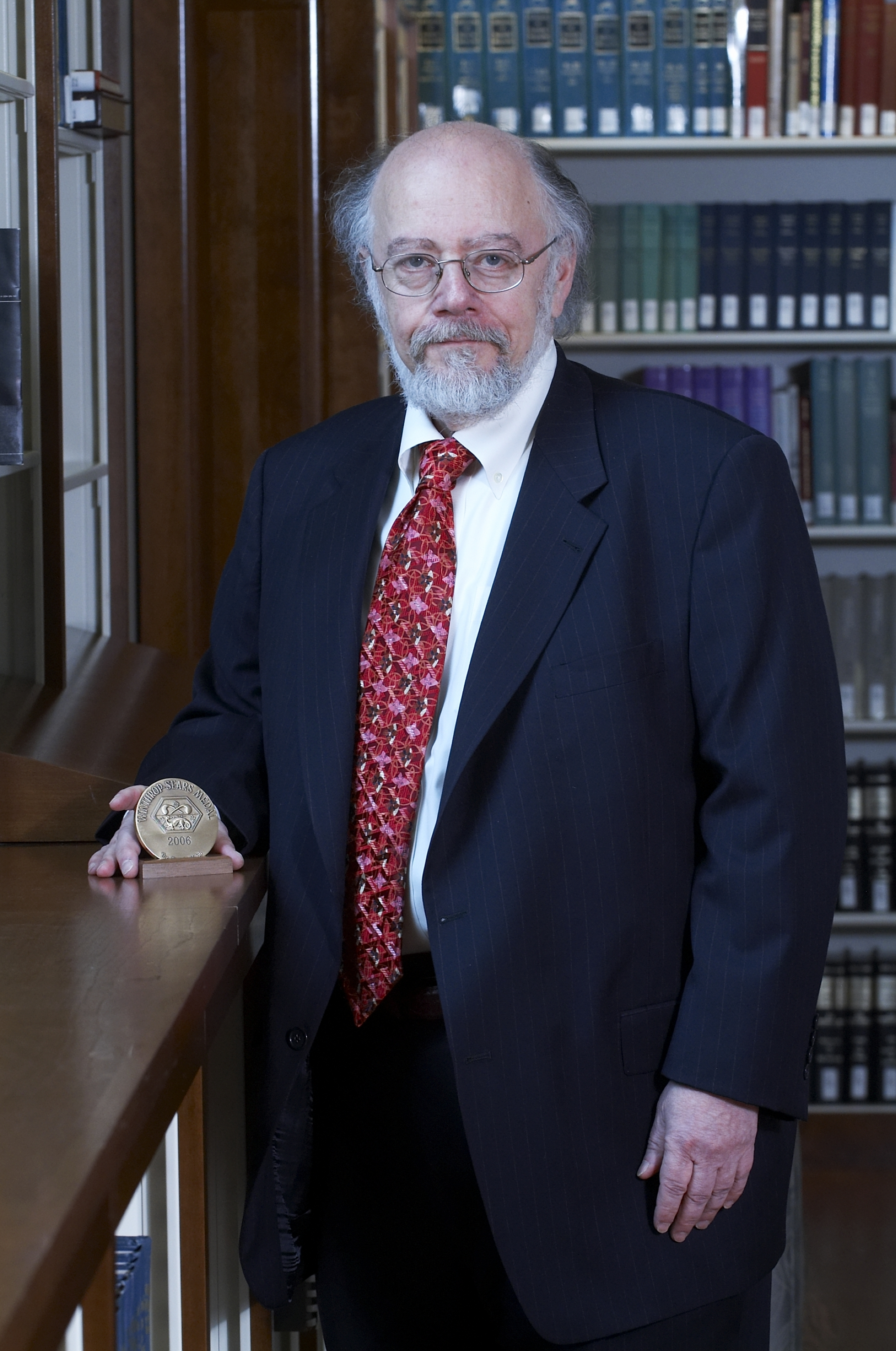 Photograph of Sol J. Barer, chemist and recipient of the 2006 Winthrop-Sears Medal, presented at Heritage Day, Chemical Heritage Foundation, Philadelphia, PA, USA.